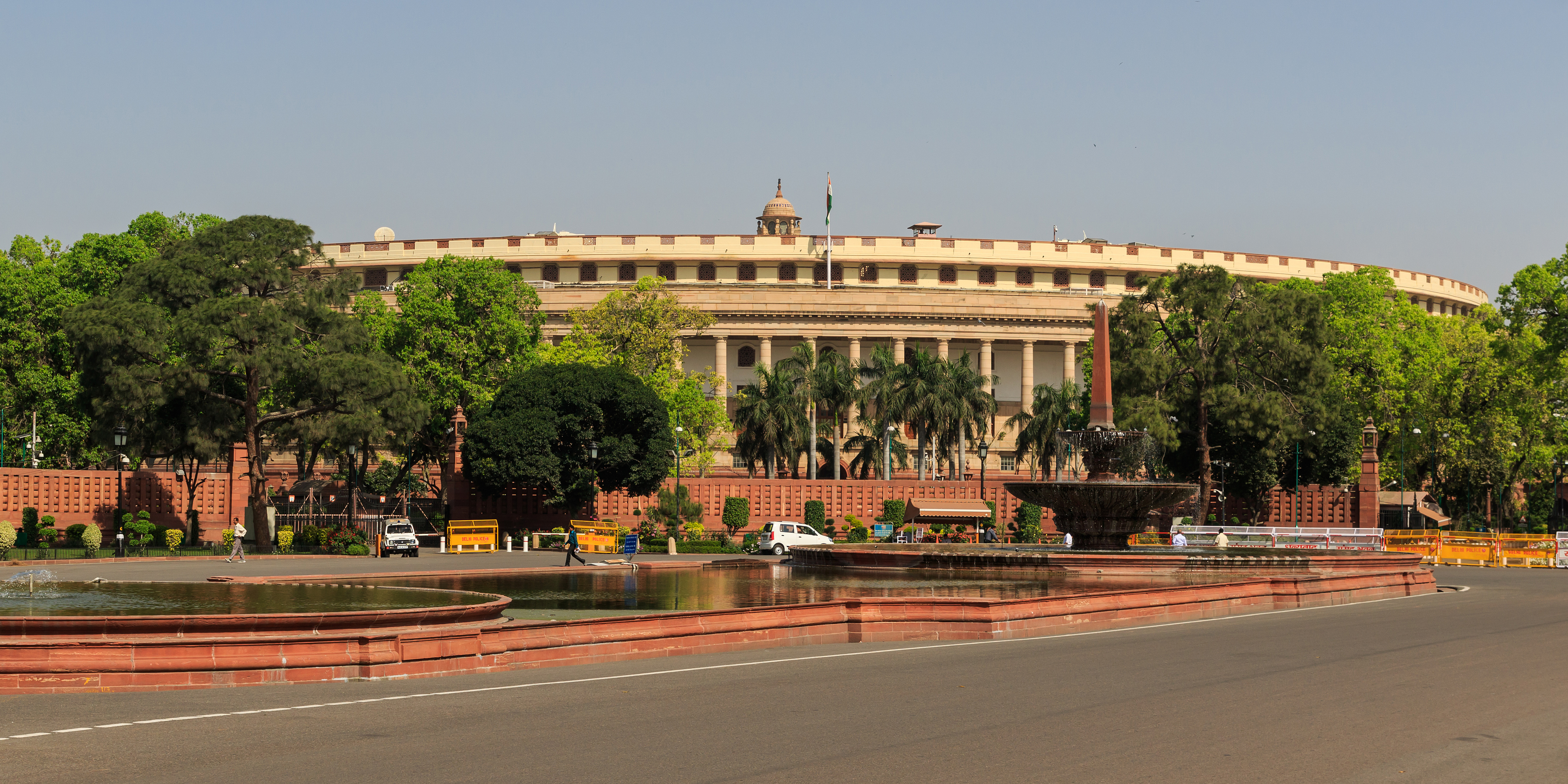 Ensemble of Government buildings on Rajpath in New Delhi, India